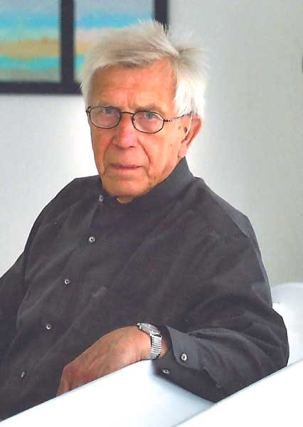 Hans Hermansson - Artist from Sweden